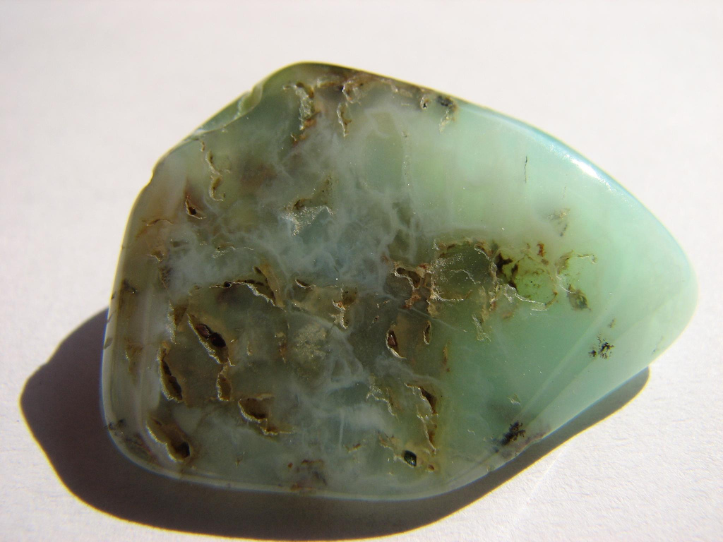 Chrysoprase, Australia